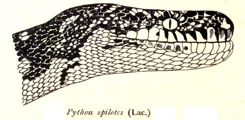 Python spilotes